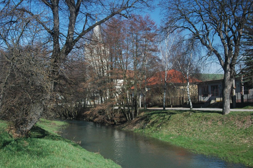 Sobotište, Senica District, Slovakia.